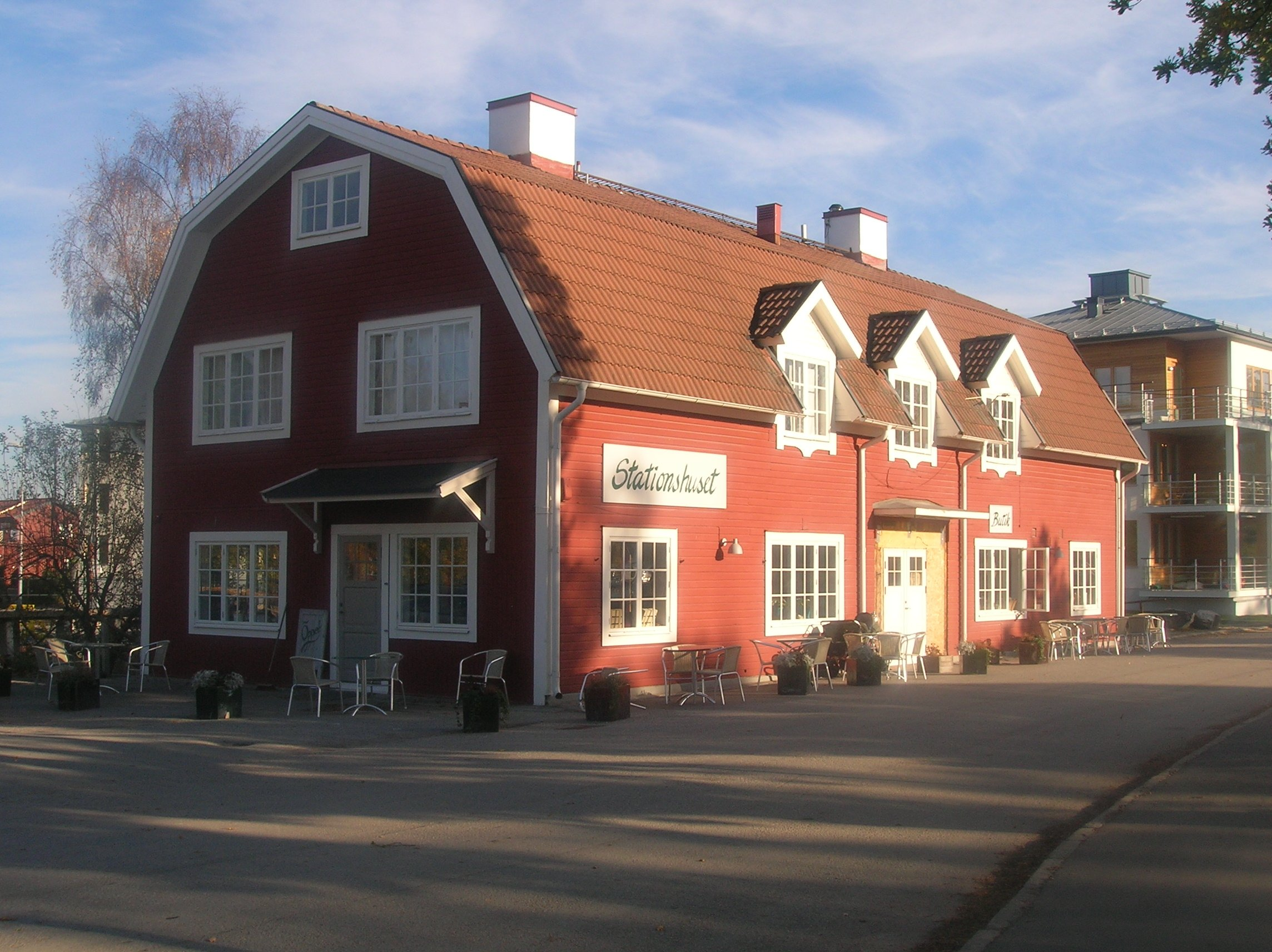 Stationshuset, Saltsjöbaden, Nacka municipality, Sweden